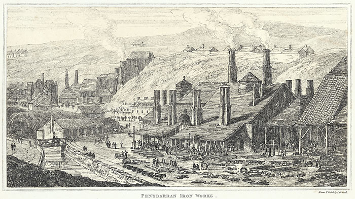 An industrial scene showig people at work at the Penydarren iron works.